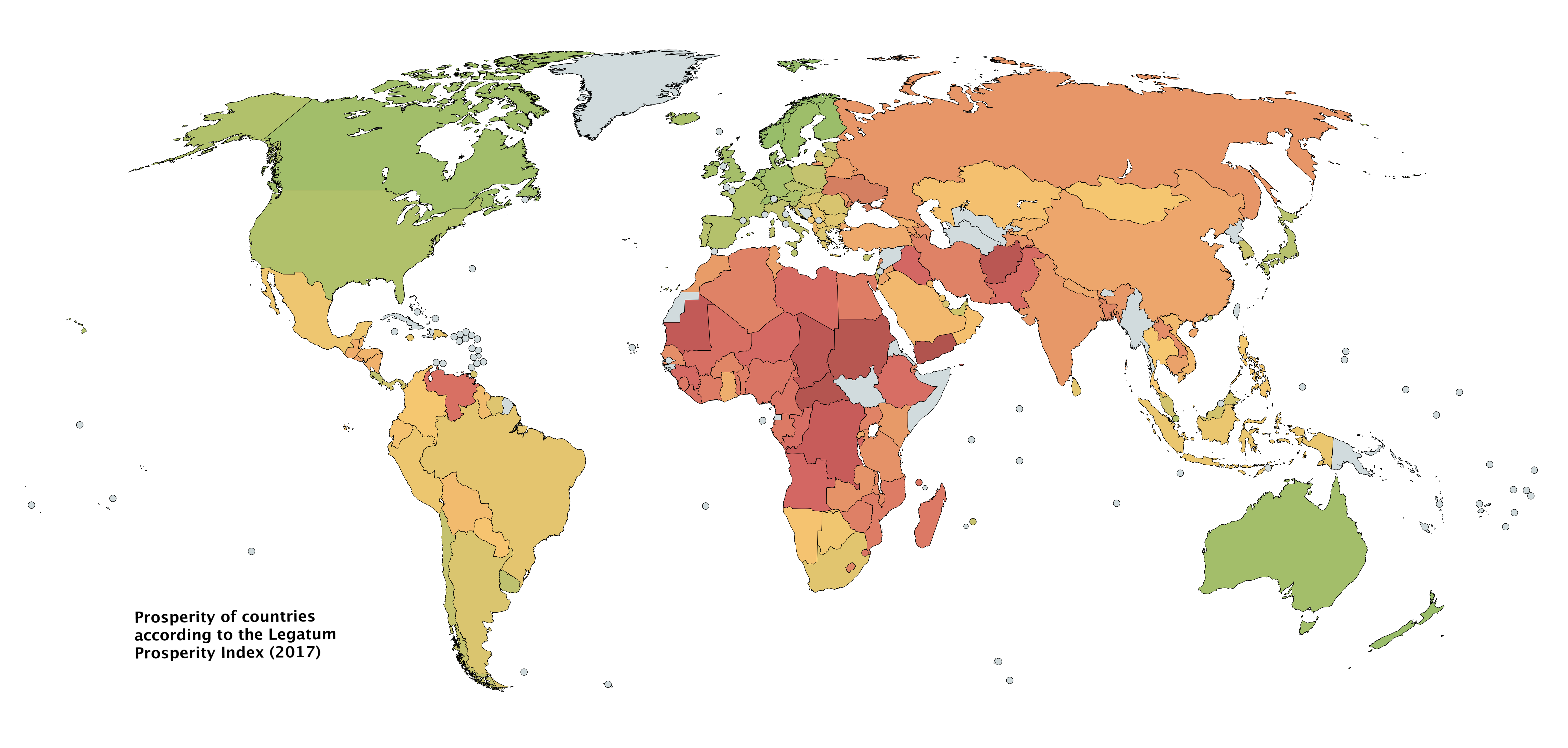 A colour-coded map showing the prosperity of countries according to the Legatum Prosperity Index published in 2017. Factors that contribute to a country's prosperity are Economic Quality, Business Environment, Governance, Personal Freedom, Social Capital, Safety & Security, Education, Health and Natural Environment (the "9 Pillars of Prosperity"). Countries are shown on a gradient scale from green to red, in order from most prosperous to least prosperous. Some countries are not shown due to the lack of data, and are presented in grey.